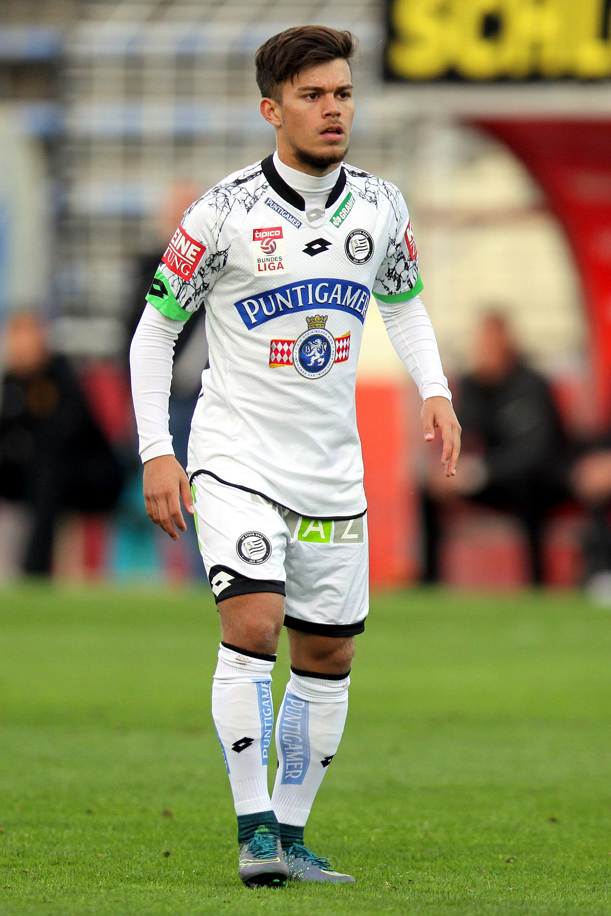 Match of the Austrian Football Bundesliga – FC Admira Wacker Mödling (red shirts) vs. SK Sturm Graz (white shirts) 0-1 (0-0) on 2015-09-27 in Bundesstadion Sudstadt – The photo shows Sascha Horvath